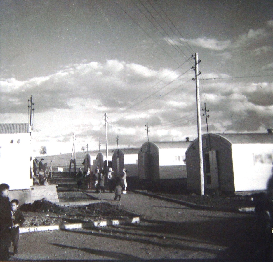 1963 Skopje earthquake: A view to the settlement Shuto Orizari, a gift from the United States, 1964 This media file is produced by Wikipedian in Residence in Category:Wikipedian in Residence at DARM in 2016.